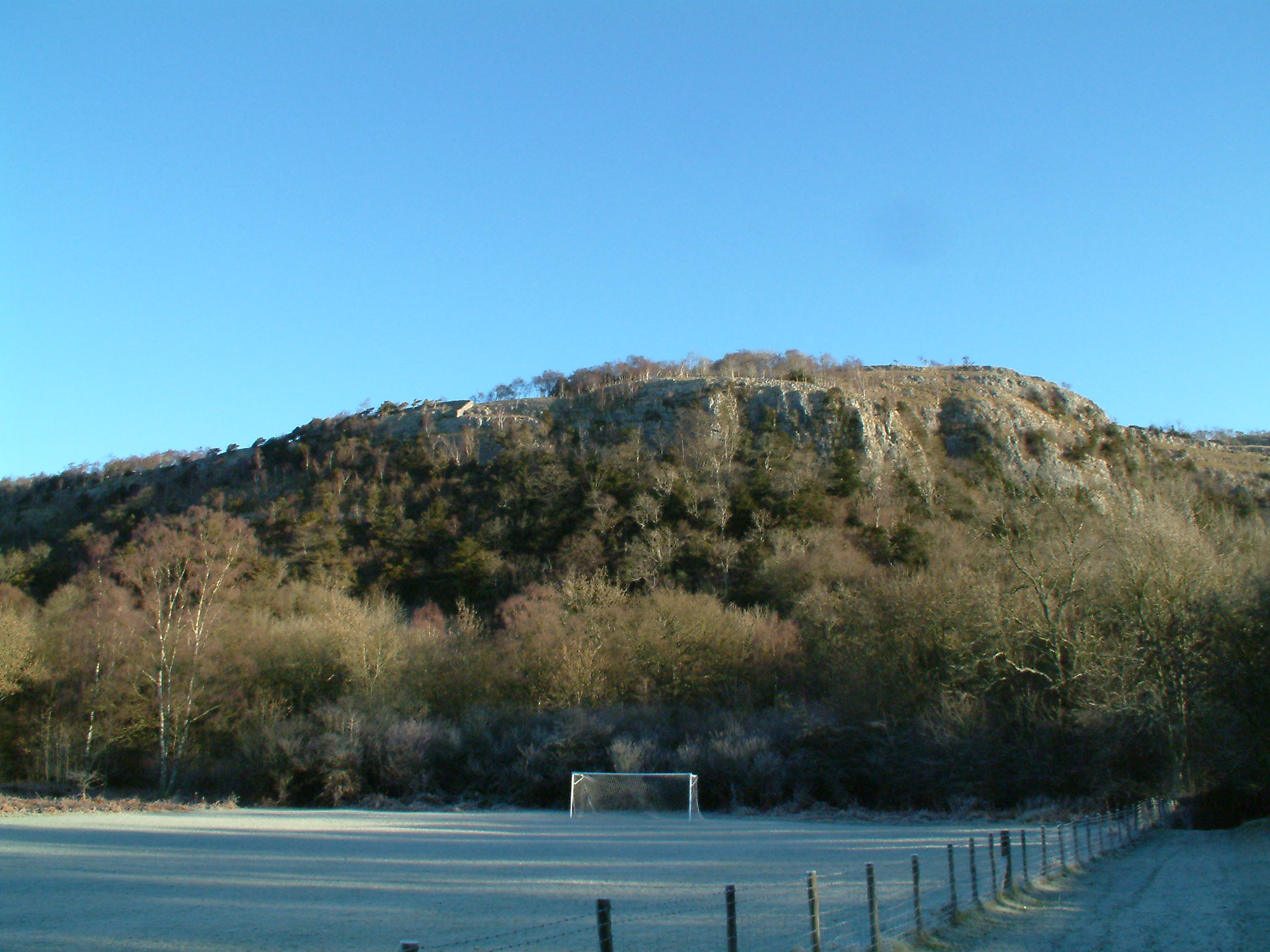 Whitbarrow from near Witherslack School. Photograph by Stephen Dawson, 29 December 2003.